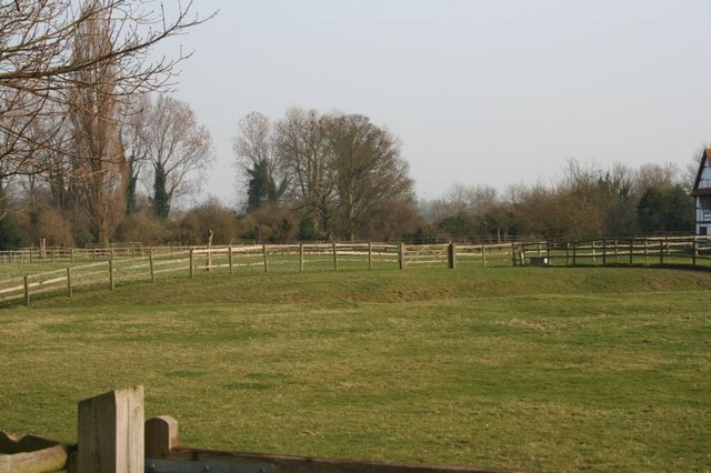 The castle Would this have been the keep of the siege castle that is mentioned in this article?